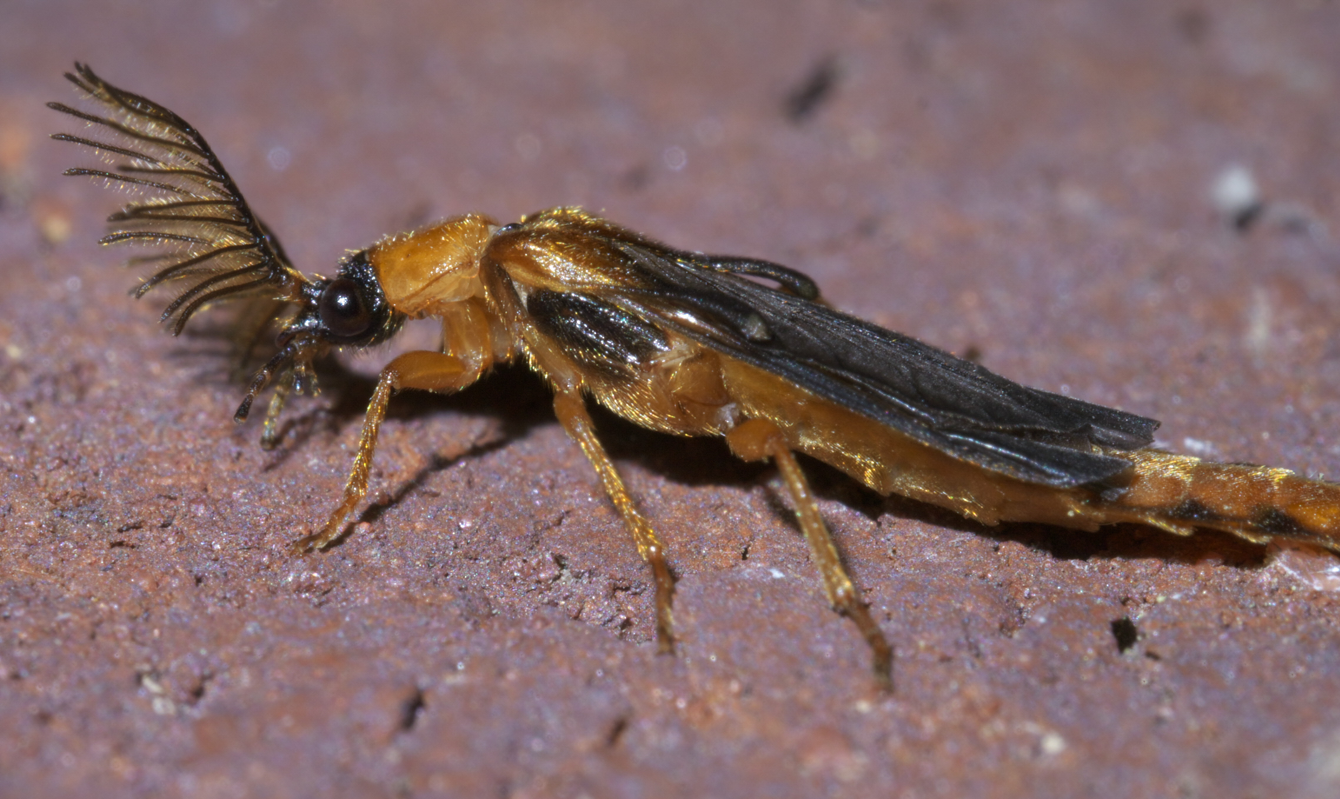 Phengodes, glowworms, ID Confidence: 98